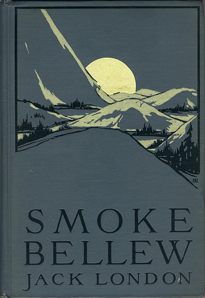 Cover of the book from 1912, The Century Co ..